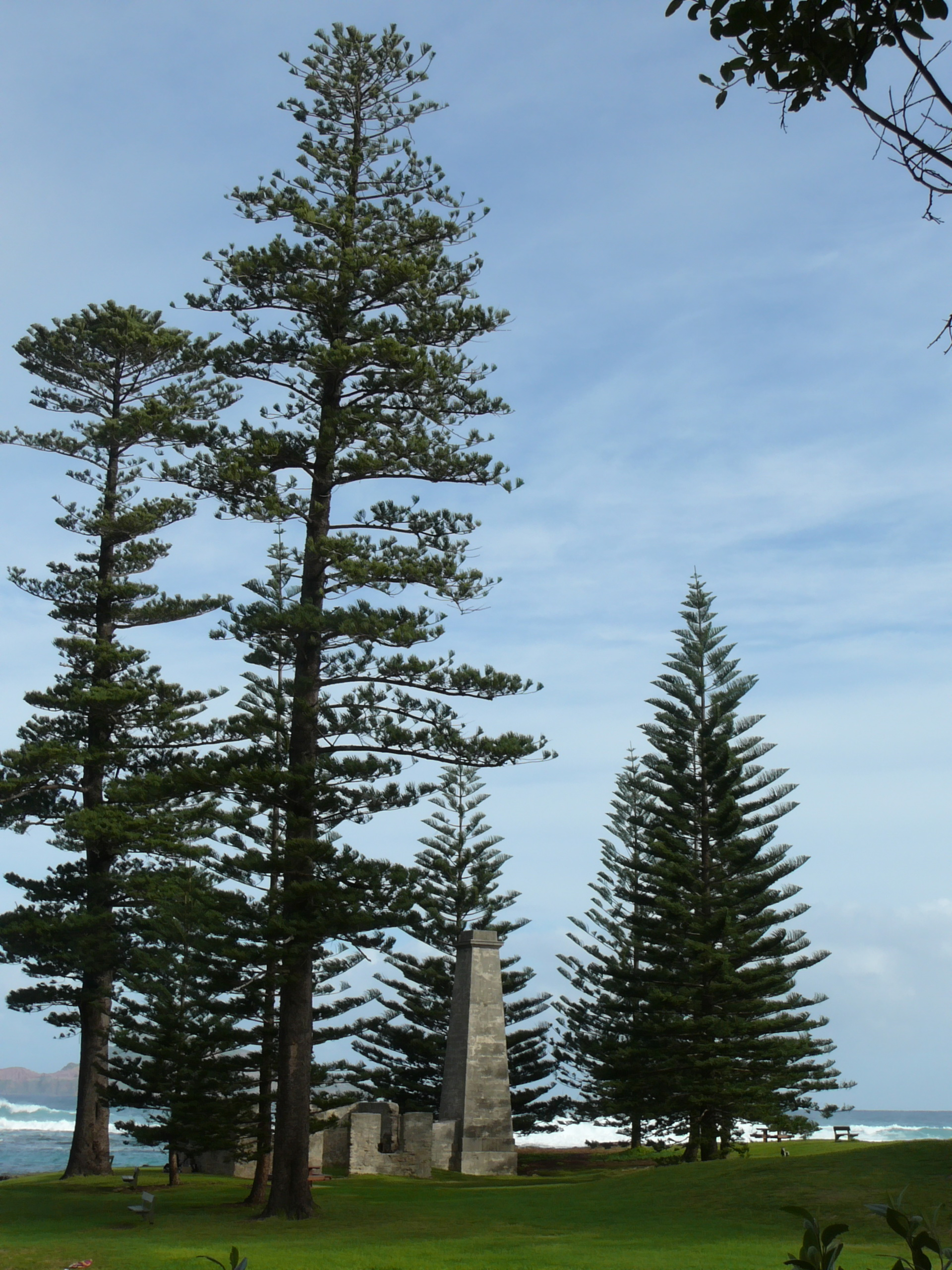 Norfolk Island Araucaria Araucaria heterophylla, Norfolk Island